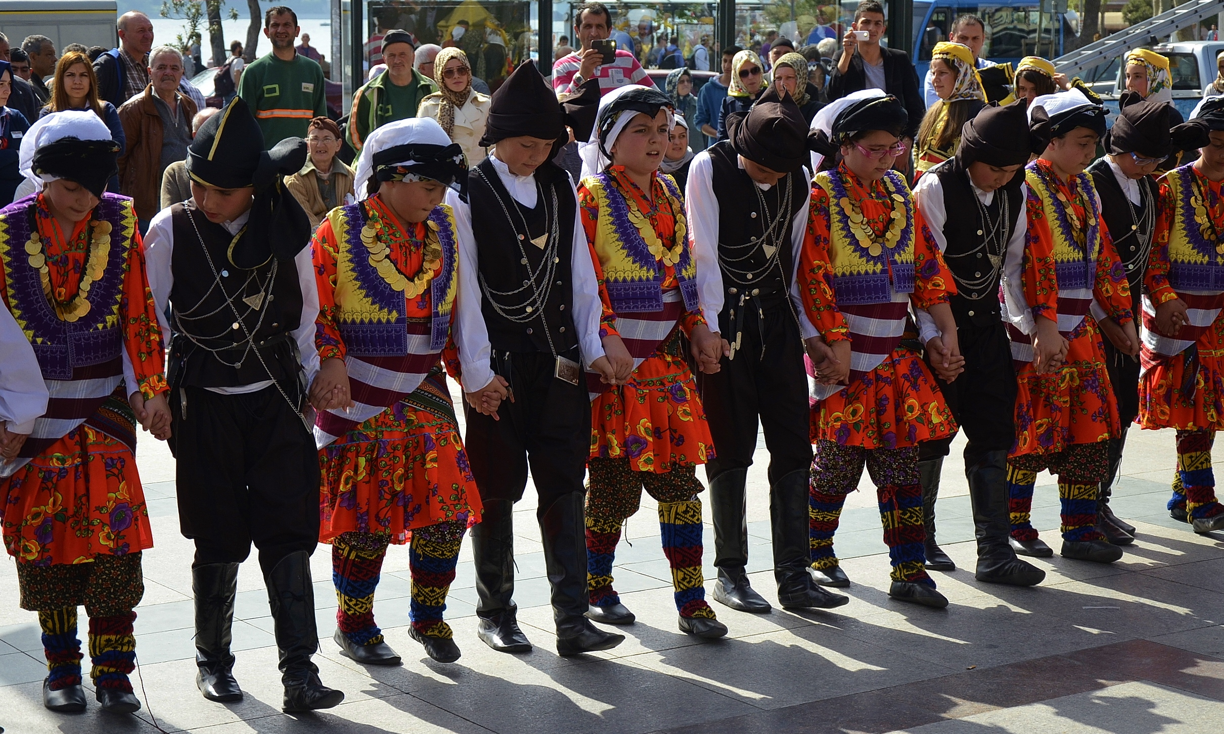 Children's Day 2014 in Beykoz, Istanbul